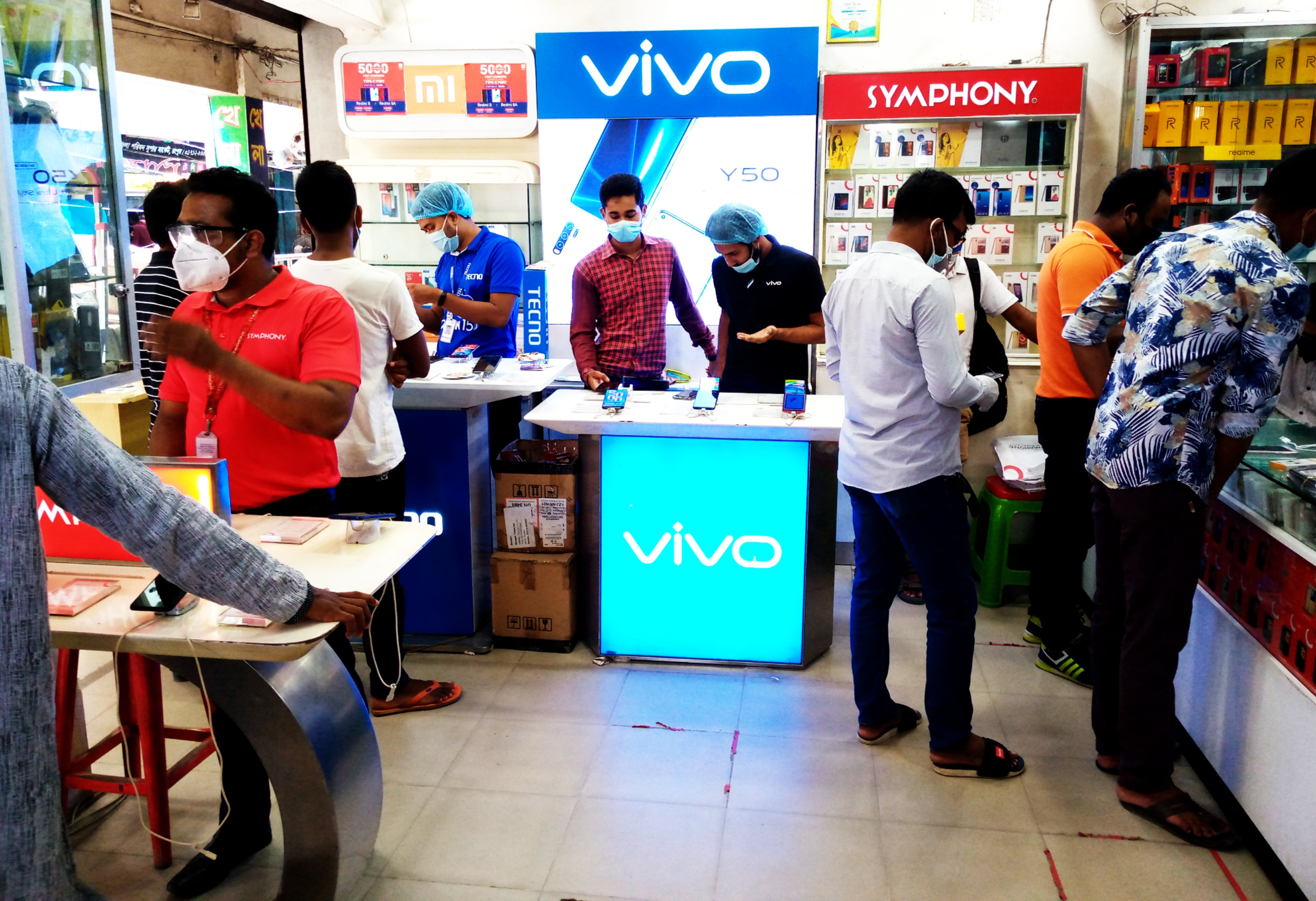 সুরক্ষা প্রস্তুতি নিয়ে স্মার্টফোন বিক্রি -(কোভিড-১৯, করোনাভাইরাস রোগের মহামারী)